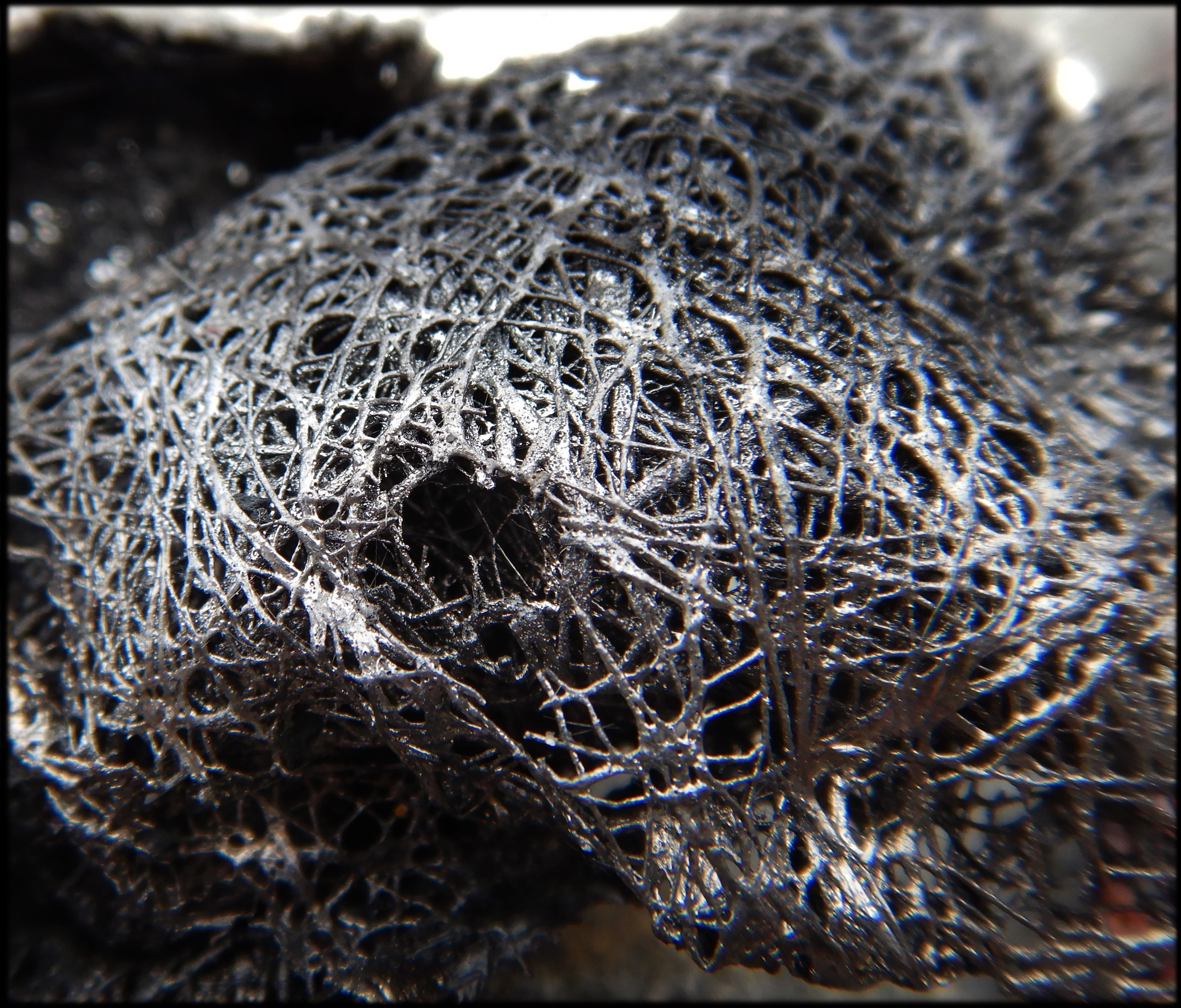 burned car (BMW)